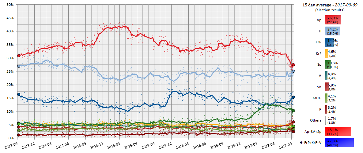 Graph showing a 30 day (15 day average from 2017-08-12, 30 days before the election) poll average trendline of the norwegian opinion polls towards the general election in 2017